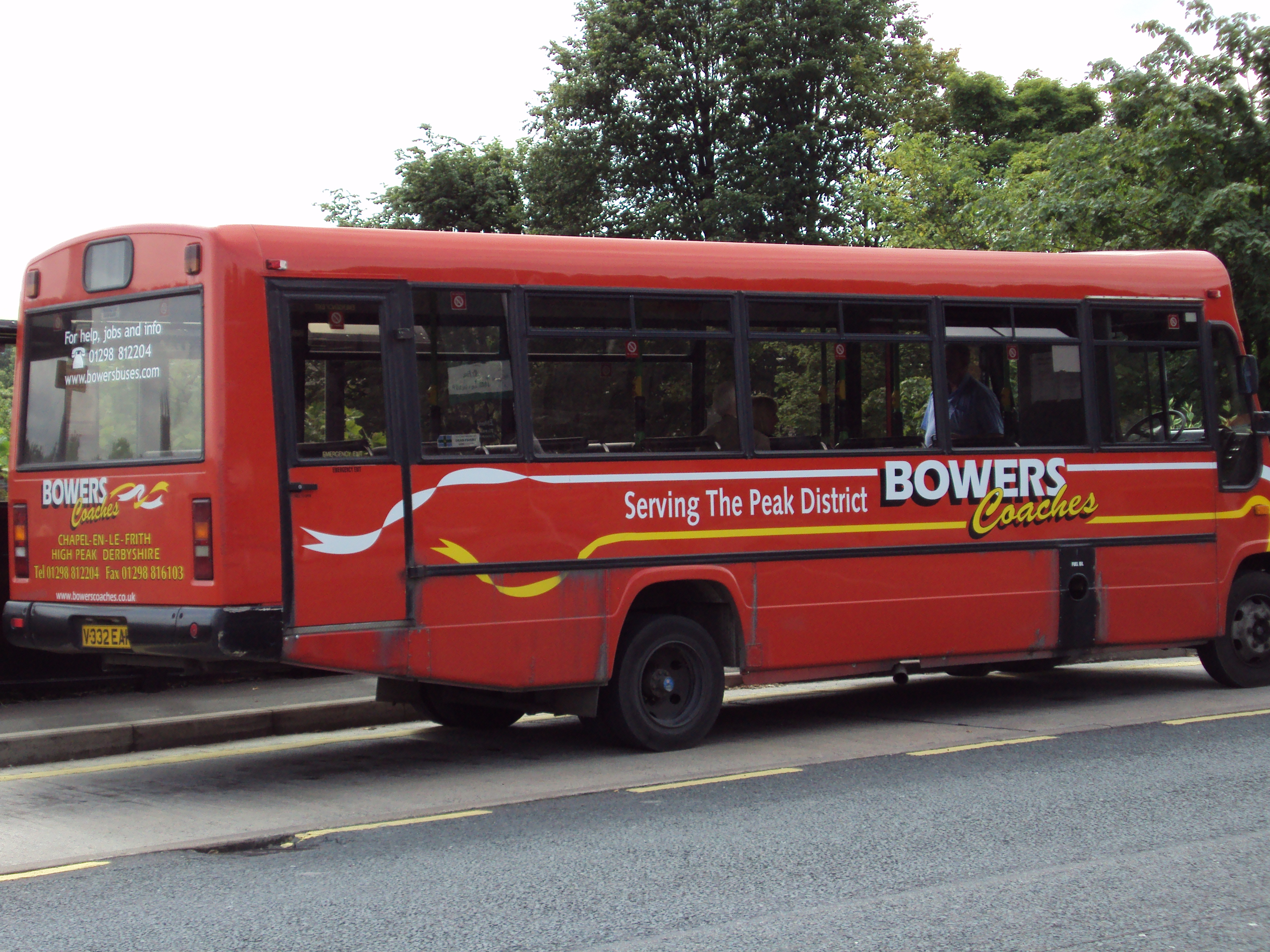 Bowers Coaches V332 EAH, a Mercedes-Benz Vario/Plaxton Beaver 2 bus parked in a layby on the A53, Station Road, opposite the railway station at Buxton, Derbyshire, England.